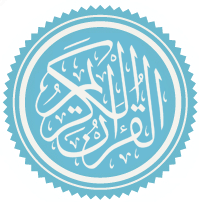 Quran logo